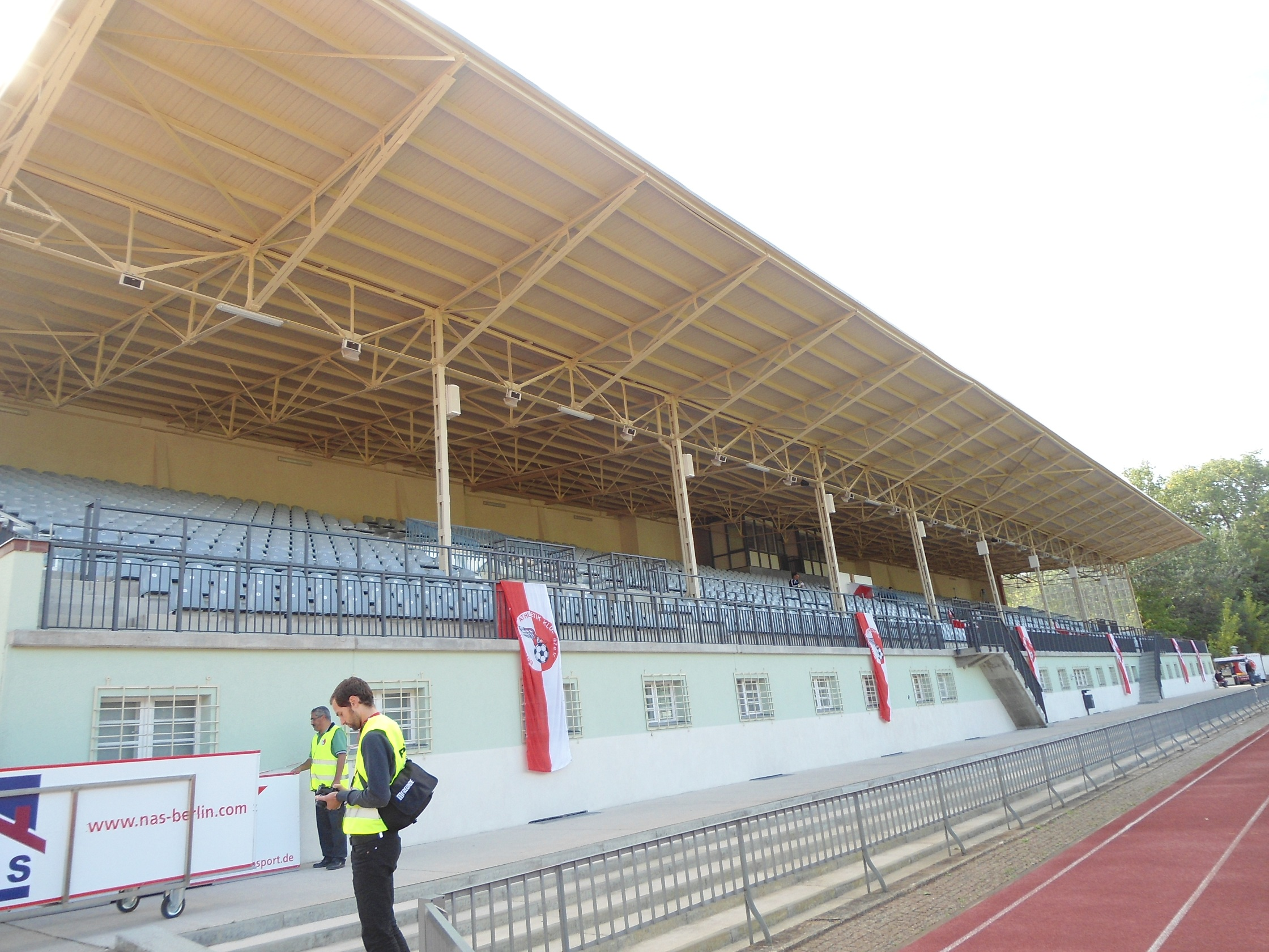 A photo of the main stand at Poststadion, Berlin